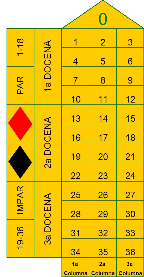 american roulette layout